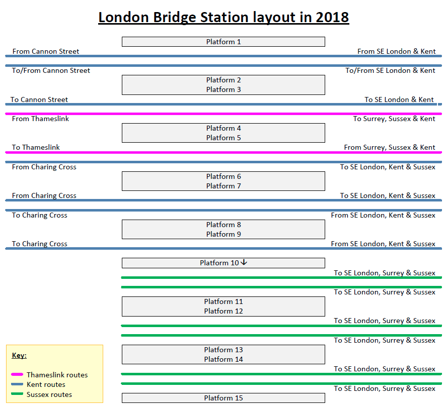 The layout of platforms, services at London Bridge in 2018 (post-thameslink)